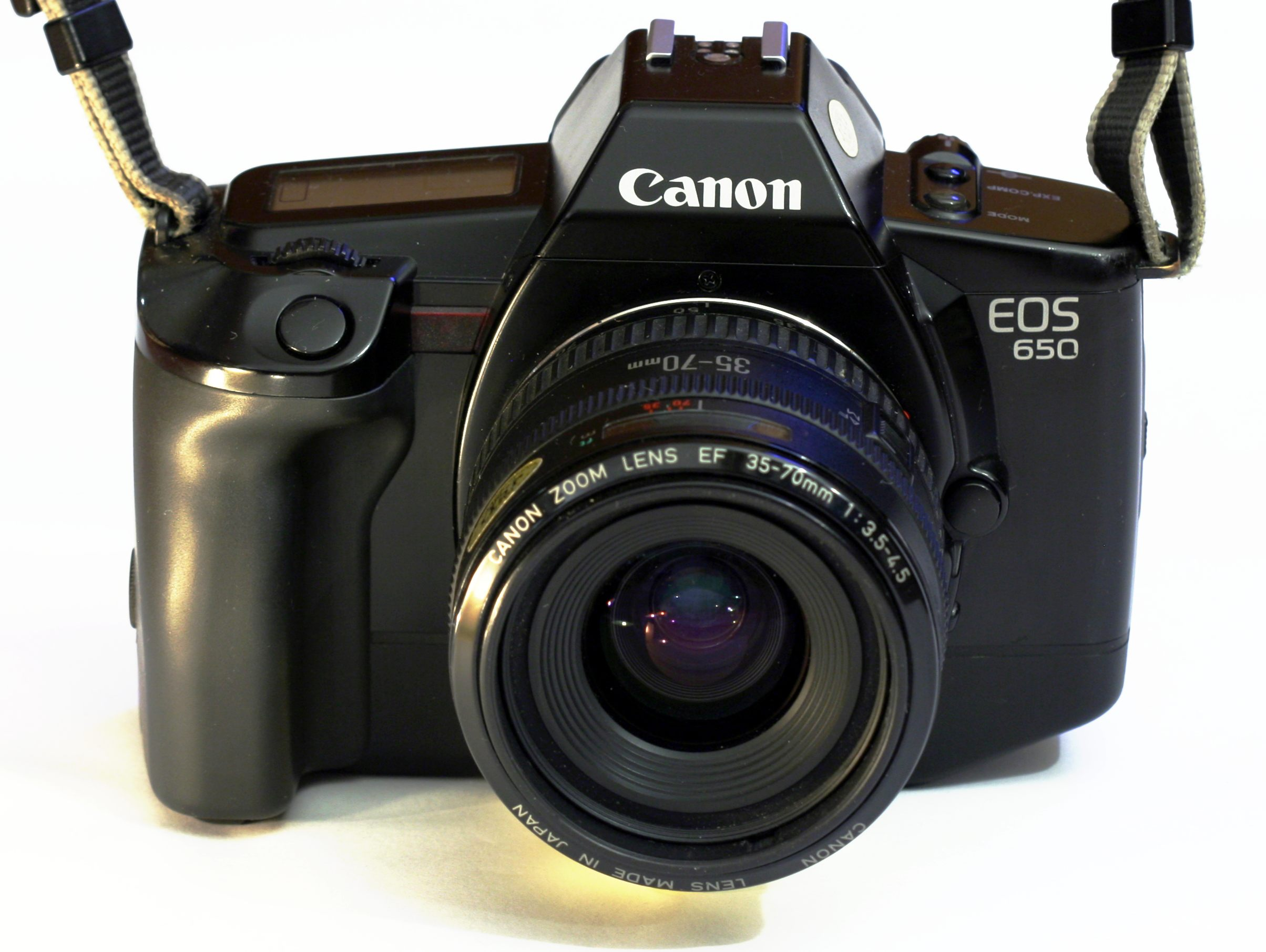 Canon EOS 650, the first EOS camera, with Canon EF 35–70 mm f/3.5–4.5 zoom lens